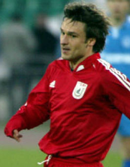 Vitālijs Astafjevs in action for FC Rubin